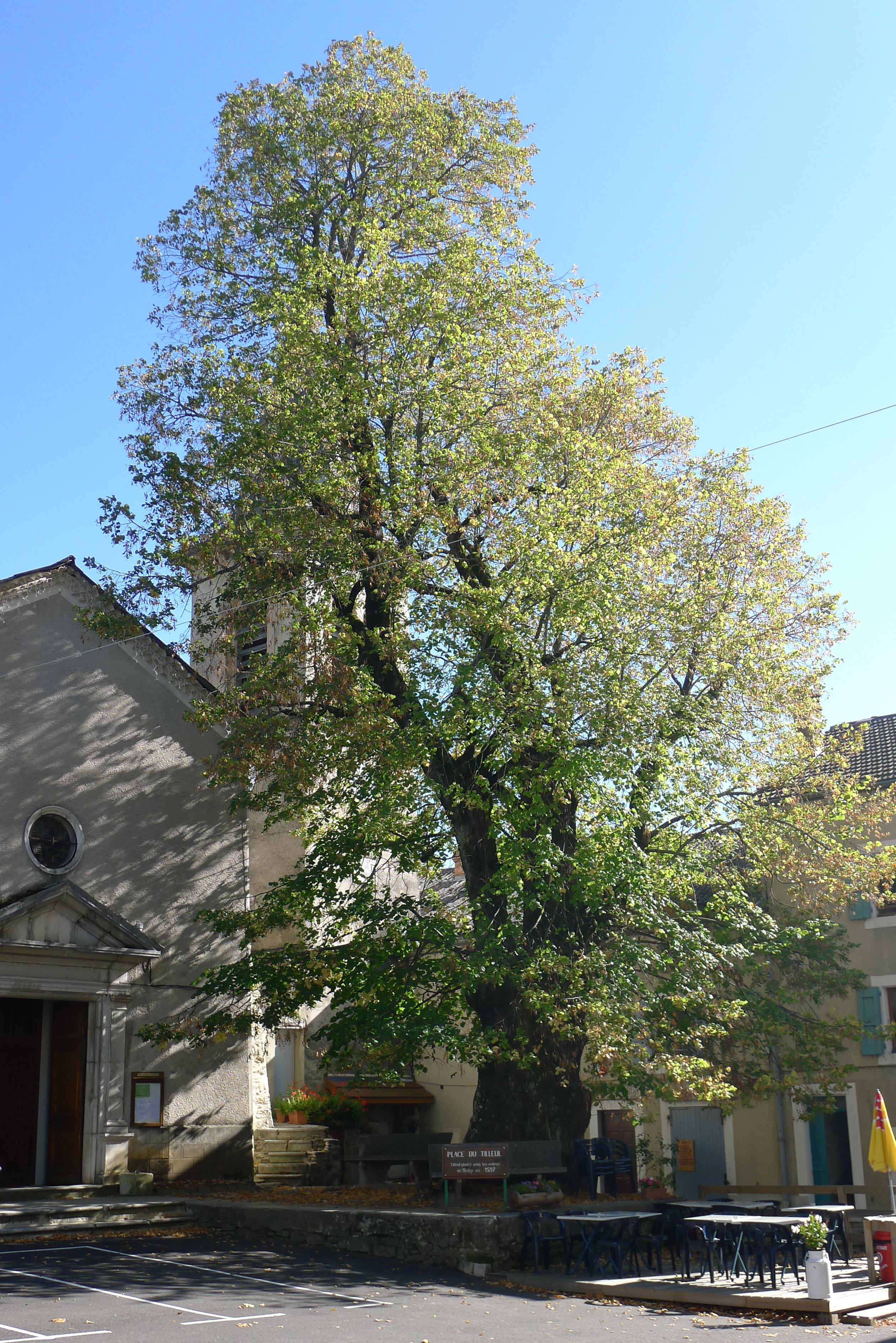 Lime tree planted under the orders of Sully in 1597 in Saint-Martin-en-Vercors - Drôme - France